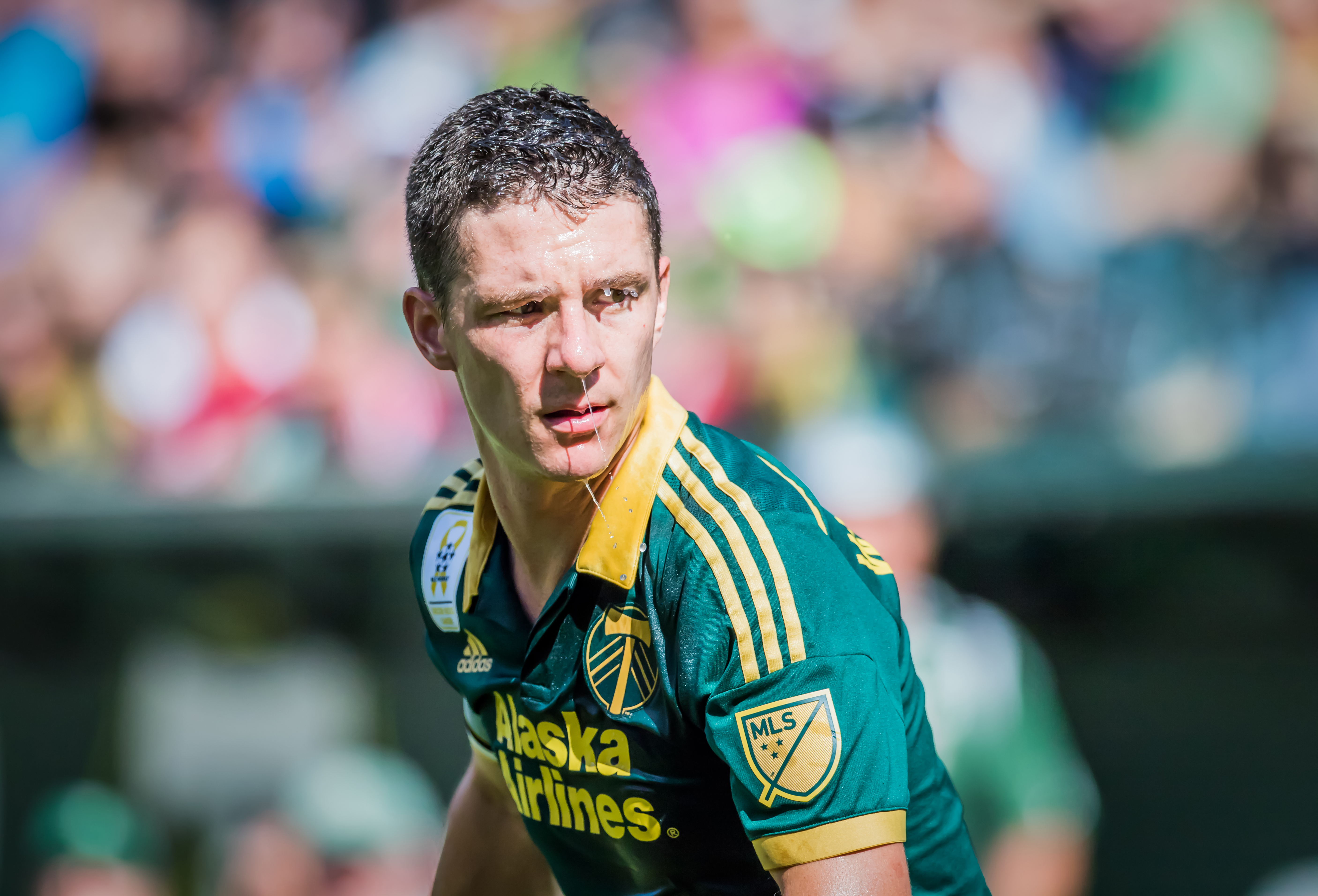 Will Johnson